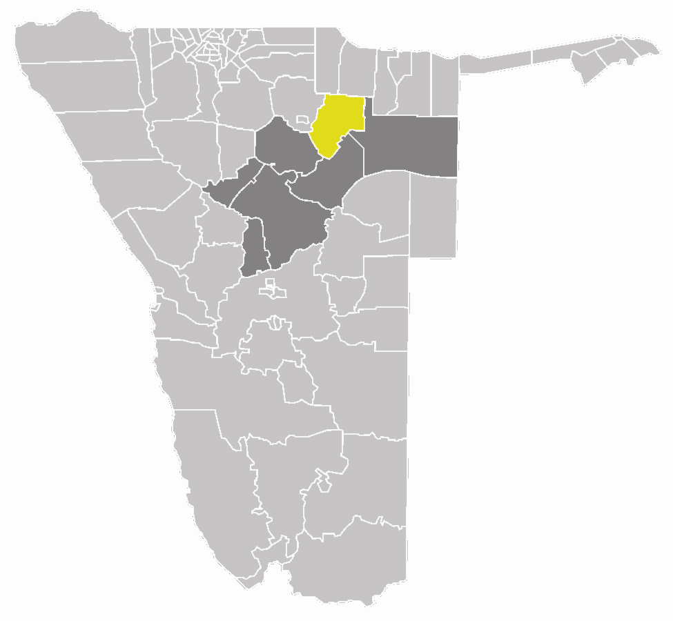 map of the Grootfontein constituency within the Otjozondjupa region, Namibia